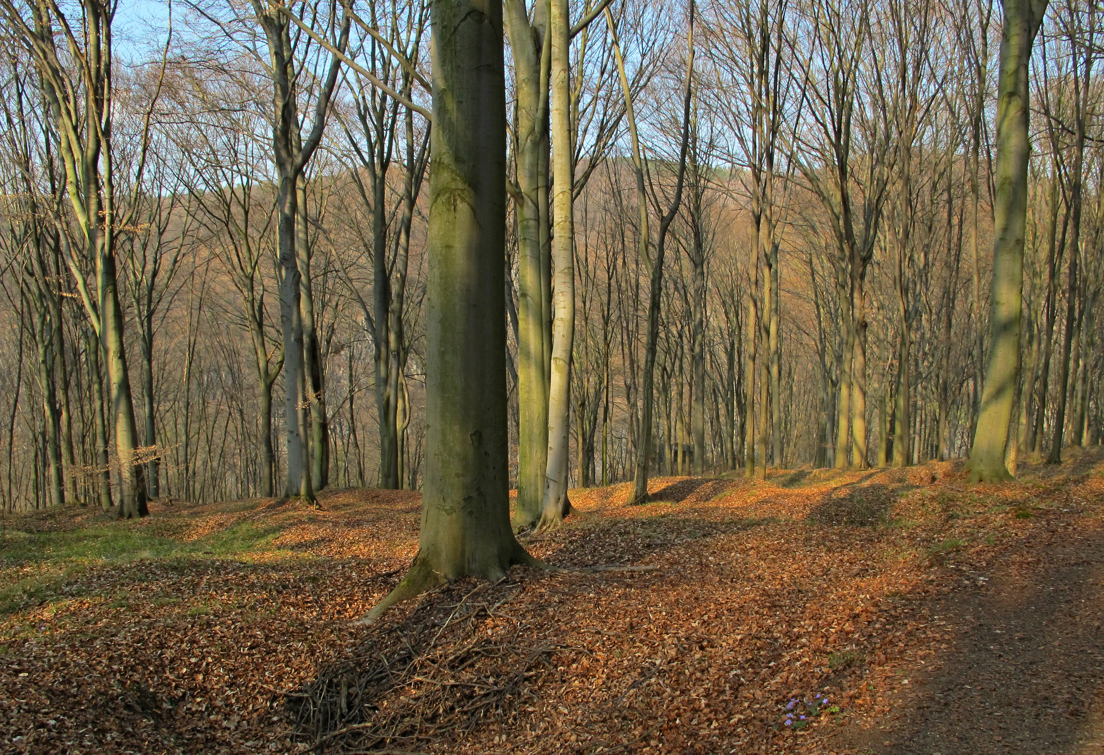 National natural monument Medník near Hradištko pod Medníkem, Prague-West District (Czech Republic)